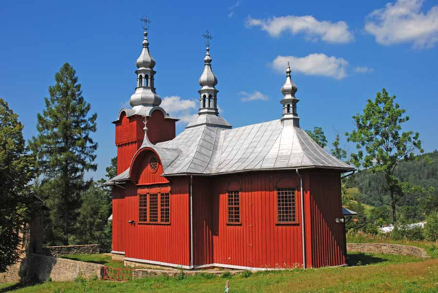 Czyrna (Poland), Greek Catholic church (now Roman Catholic church)